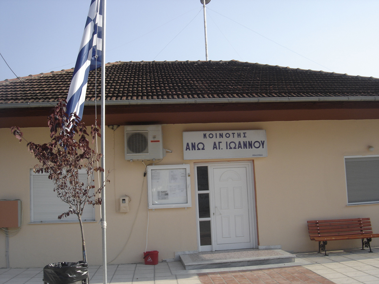 The community centre ("kinotita") in Ano Agios Ioannis.